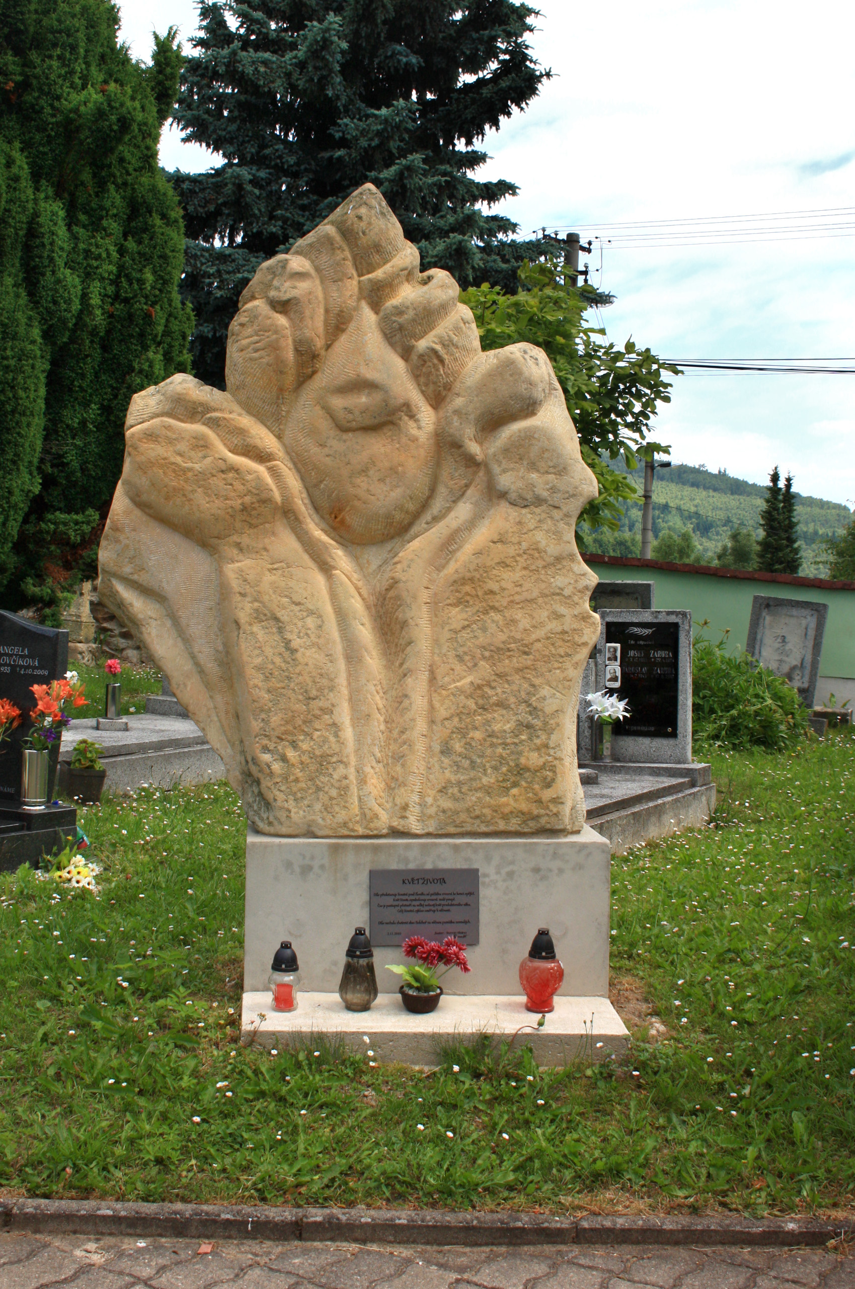 Cemetery memorial in Boleboř, Czech Republic